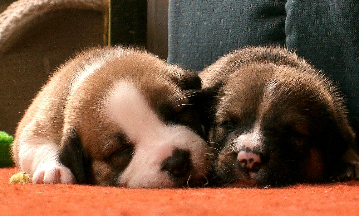 Sleeping Pups